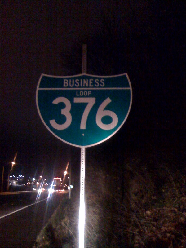 Image of I-376 Business trailblazer. Took image myself.